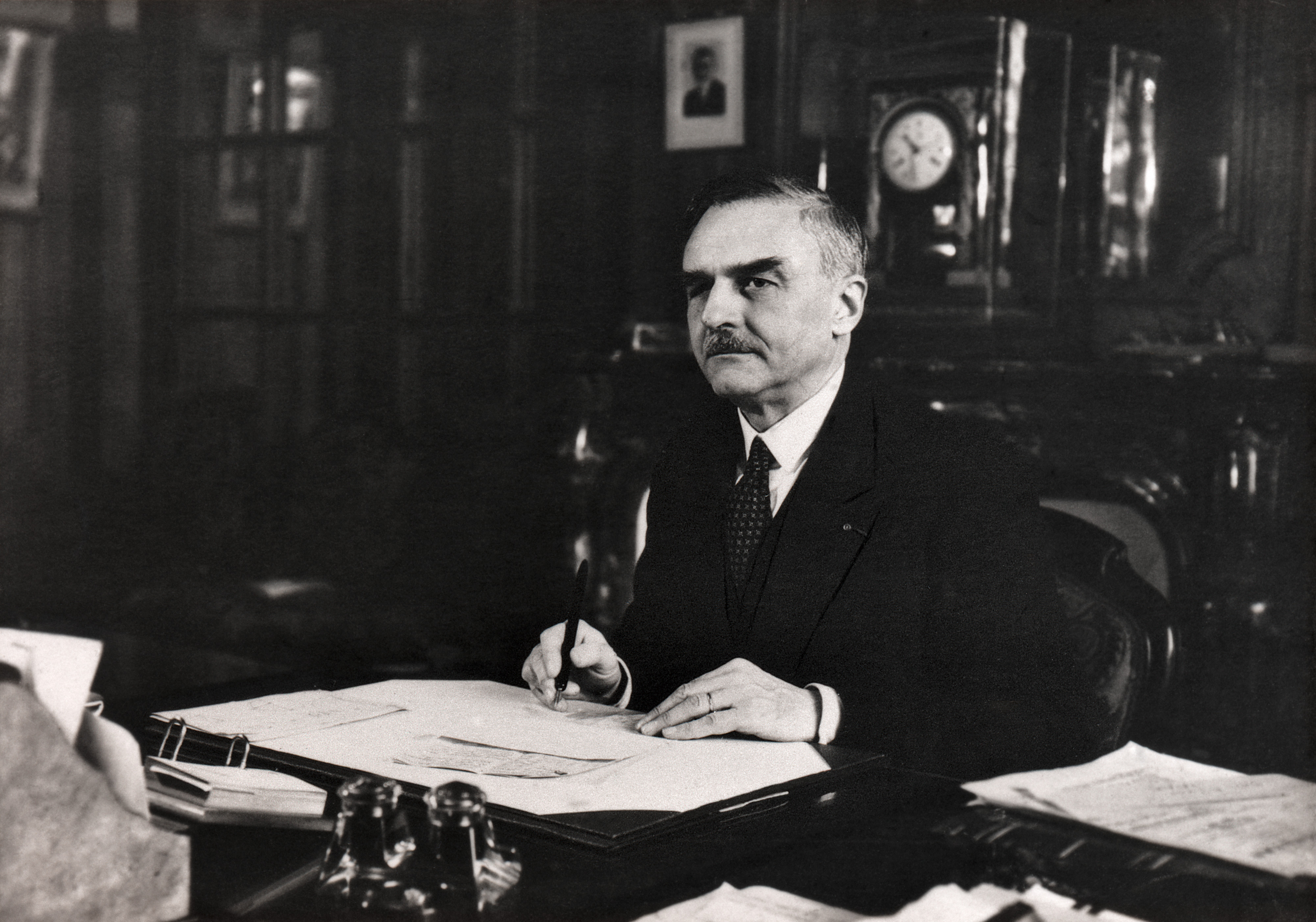 Andre Danjon, director of the Paris Meudon Observatory is seen here. He was one of the founding fathers of ESO and signed the 1954 statement committing to creating ESO.